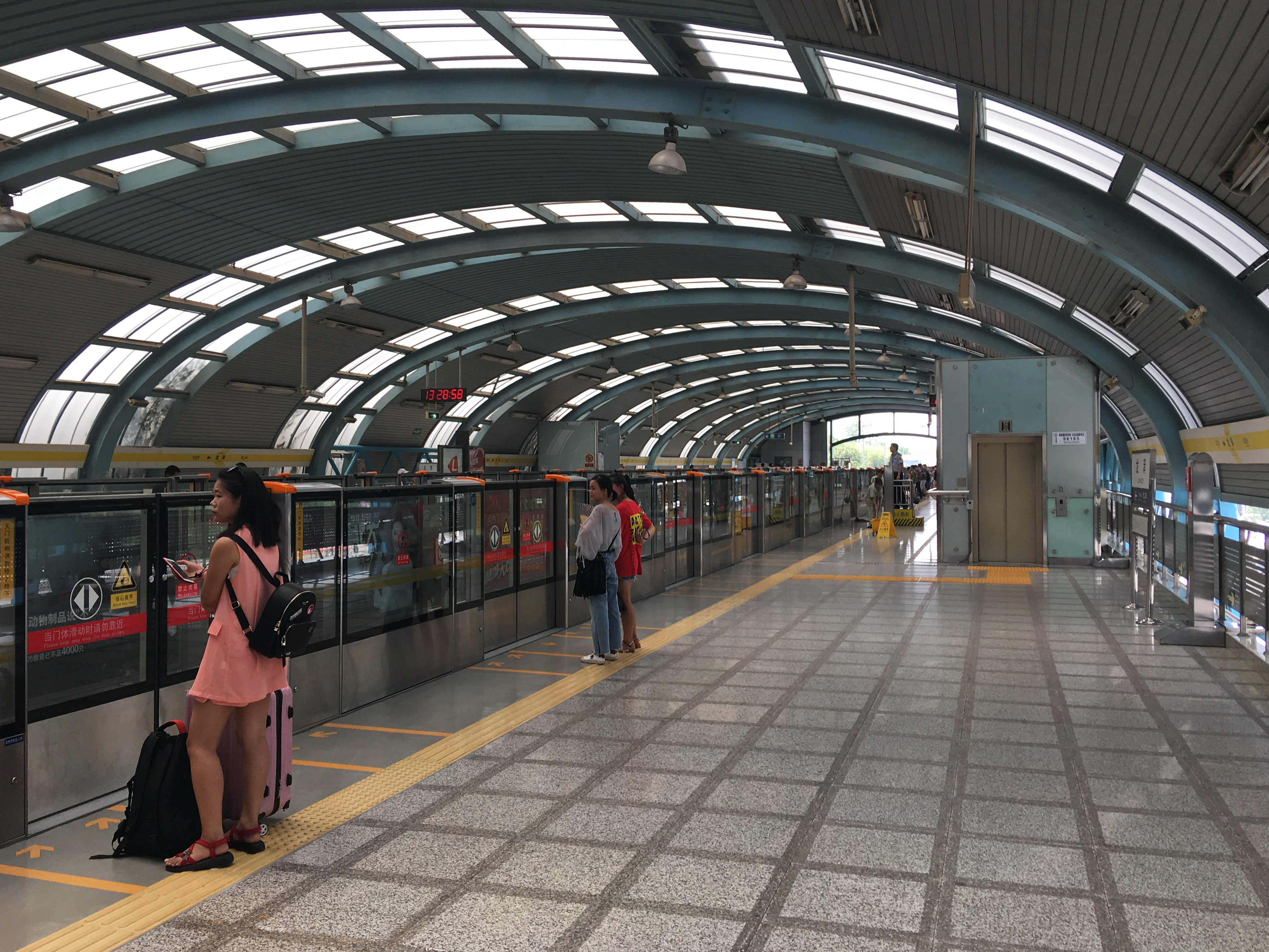 Longze Station, Subway of Northwestern Beijing